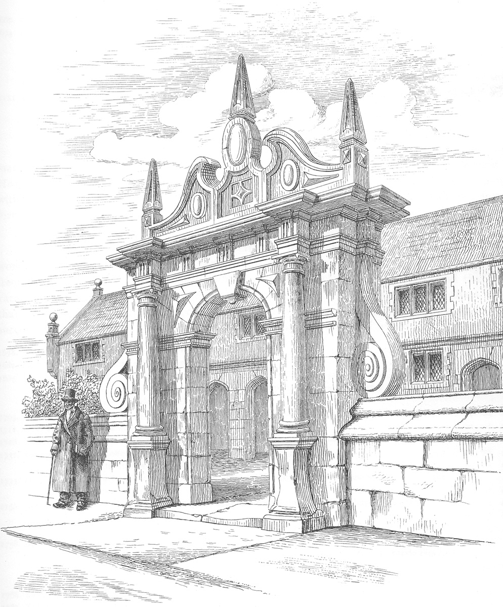 Engraving showing the gateway to Wright's Almshouses, Nantwich, Cheshire